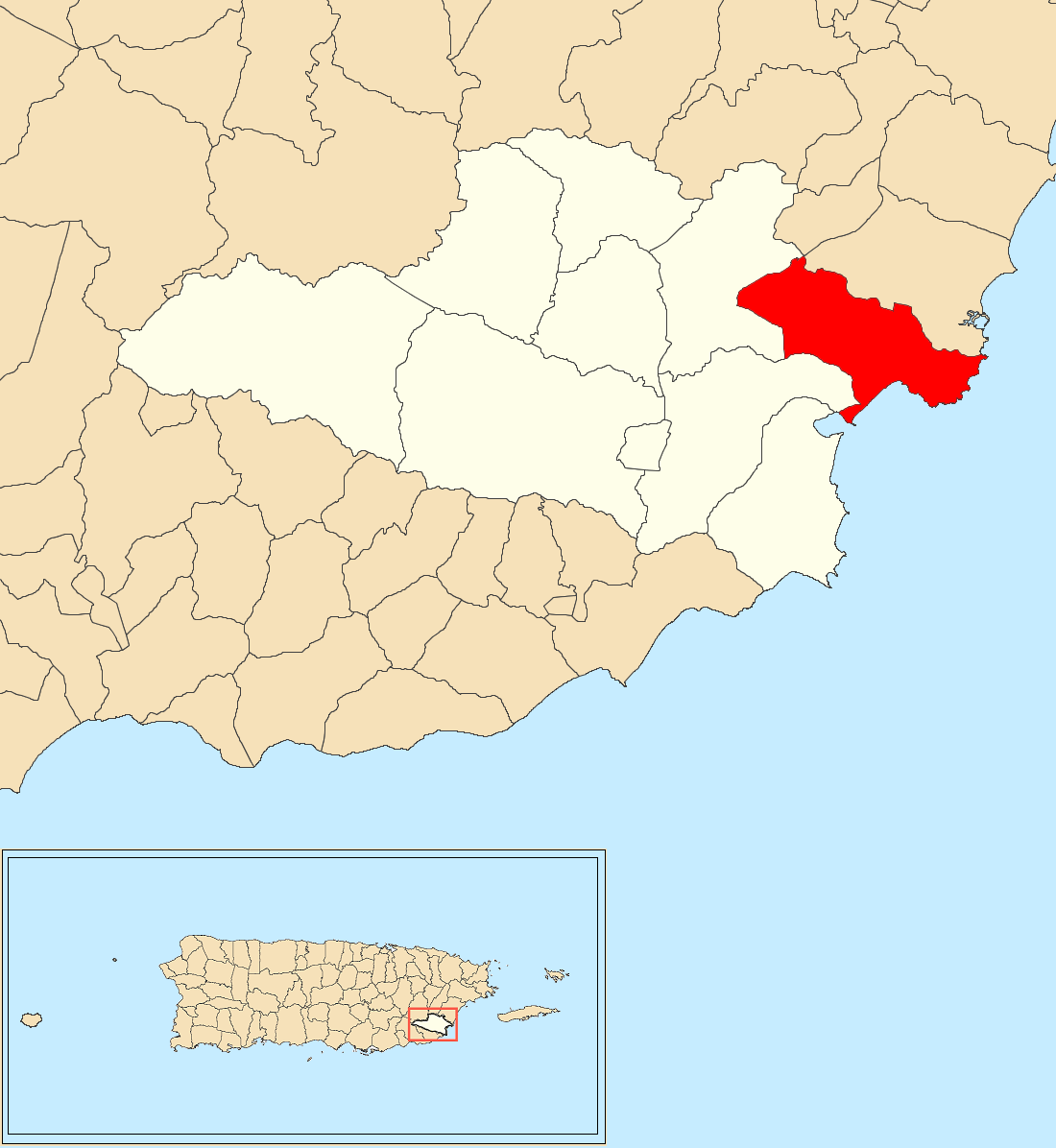 Playa, Yabucoa, Puerto Rico locator map